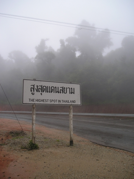 Author: Kereish, Place: Top of the Doi Inthanon Mountain, Northern Thailand, Date: August 2005.